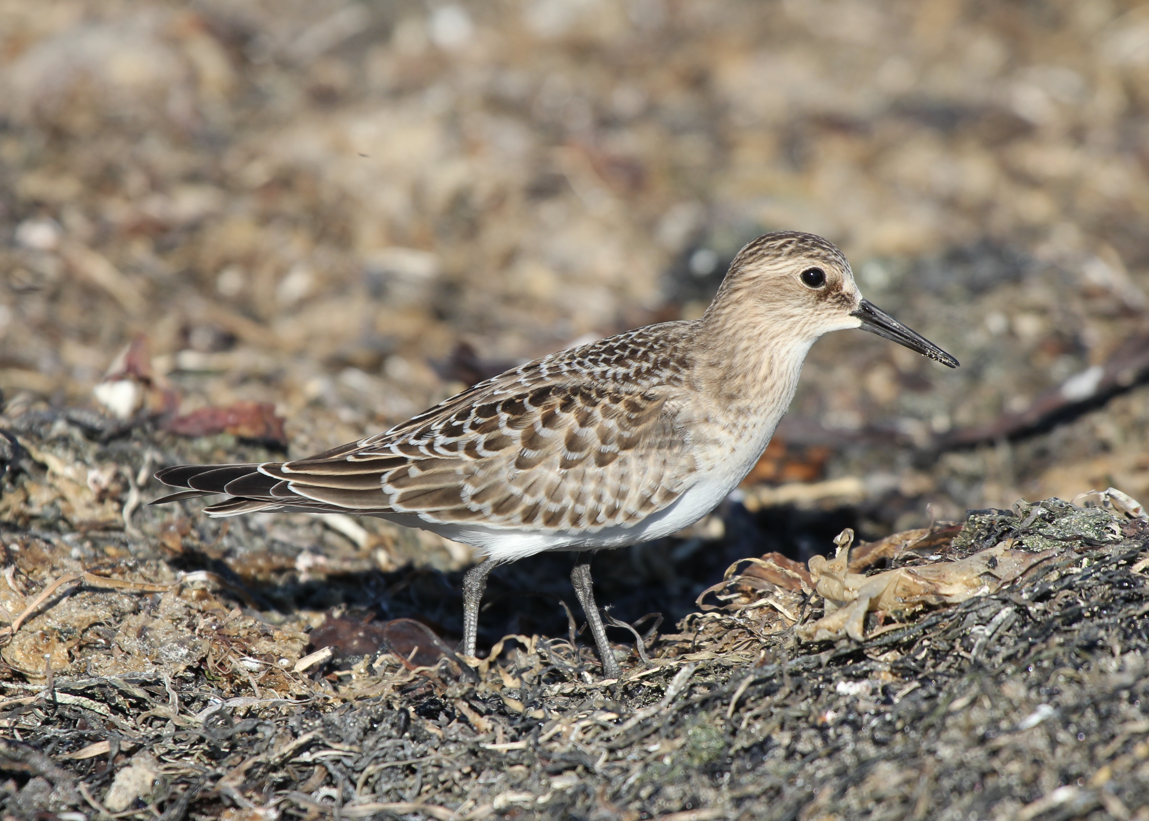 Baird's Sandpiper Calidris bairdii, juvenile, Pillar Point Harbor, California